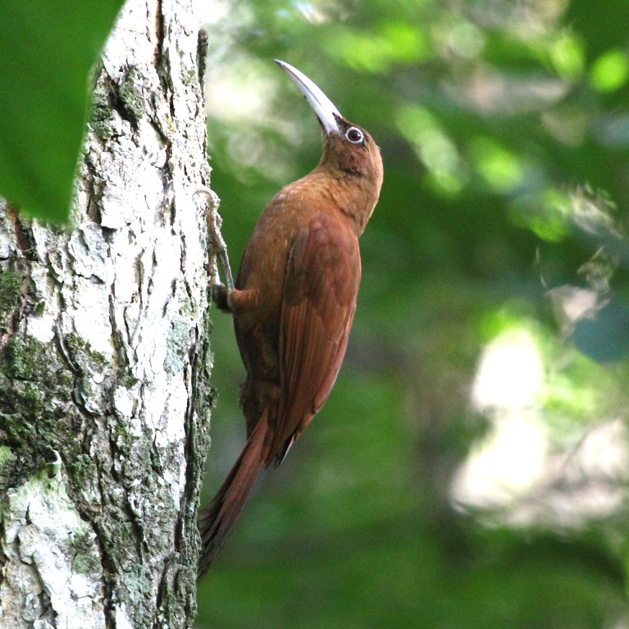 Great Rufous Woodcreeper at Bonito - MS - Brazil